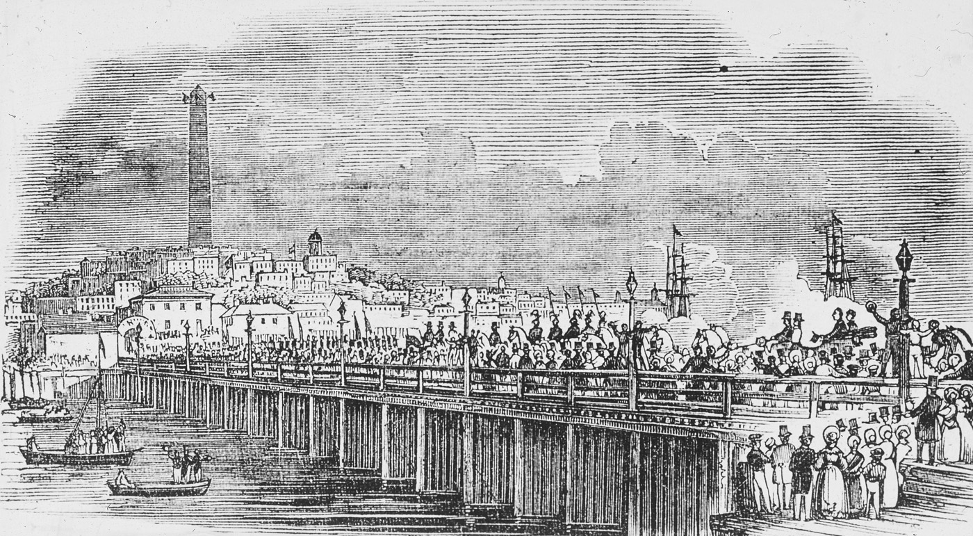 Procession crossing Warren Bridge. Showing the parade from Boston approaching the dedication exercises of June 17 at Bunker Hill Monument. From the New York Weekly Herald, June 24, 1843.